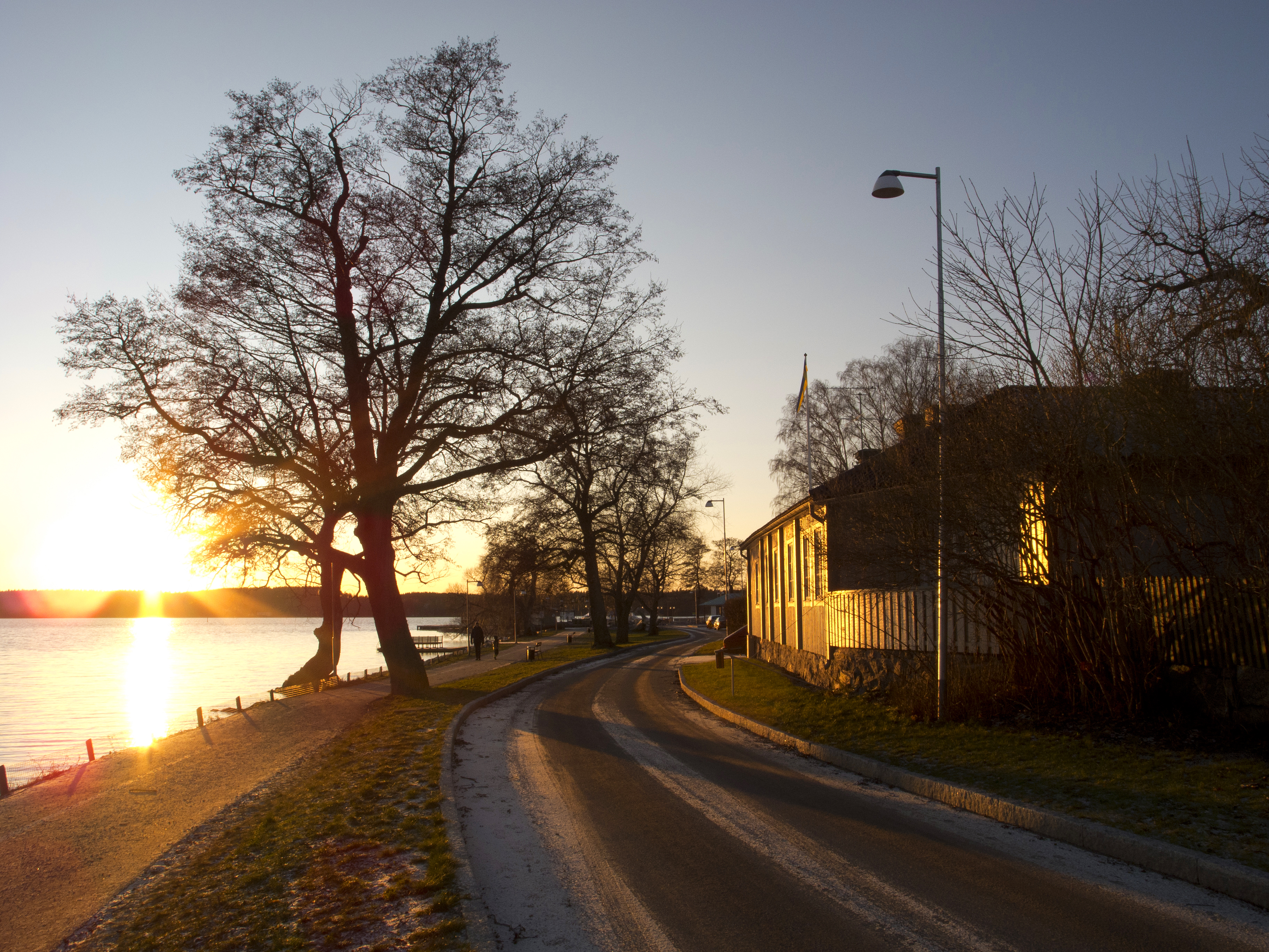 Strandvagen in picturesque Sigtuna Sweden in wintertime.